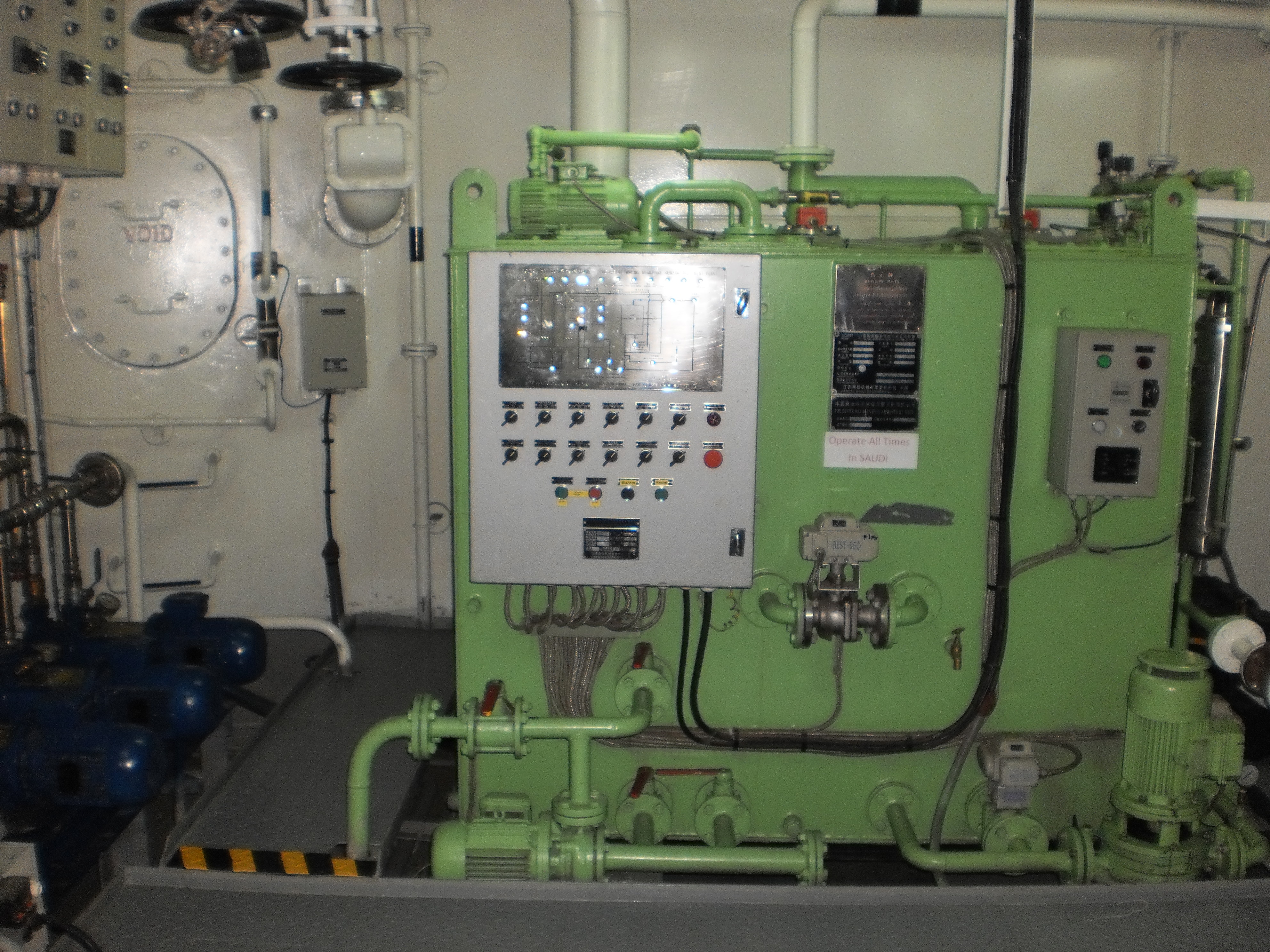 Sewage treatment plant on small vessel (crew 12-30)